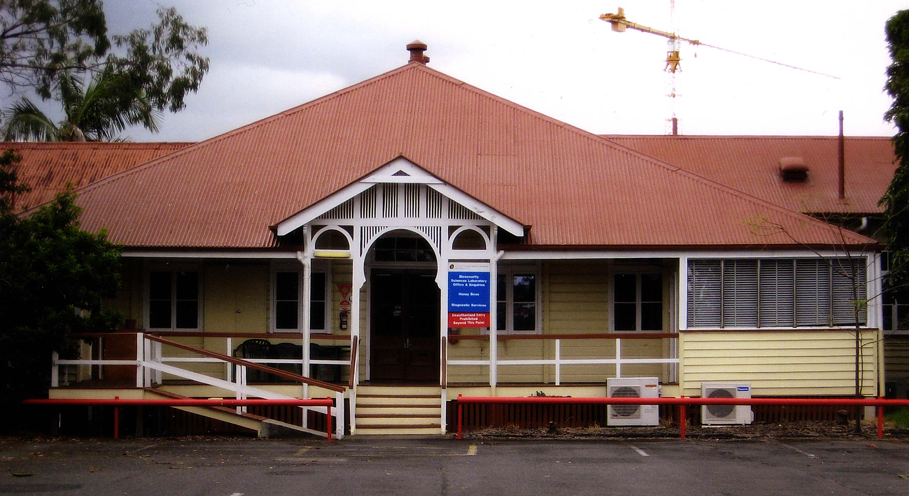 Animal Research Institute, Yeerongpilly - D Block, shown 2008. At its core is the Federation style Stock Experiment Station Main Building built in 1909. Added were a northern wing (1932) and southern wing (1950). Construction crane in background is for the Tennyson tennis complex.